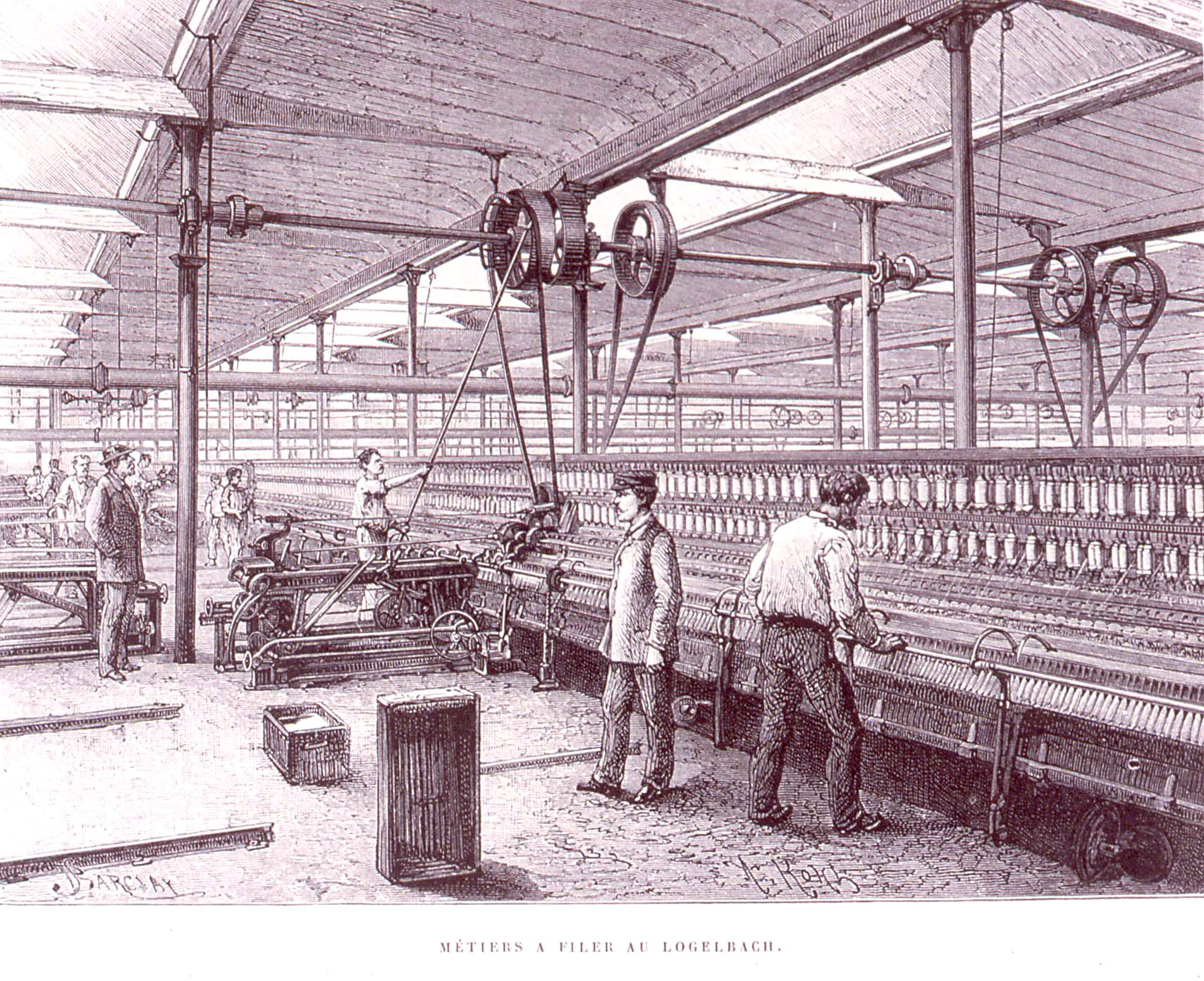 COLMAR, Logelbach, Filature Herzog ,de BARCLAY, ill. et A. KOHL, graveur (1889) Métiers à filer au Logelbach